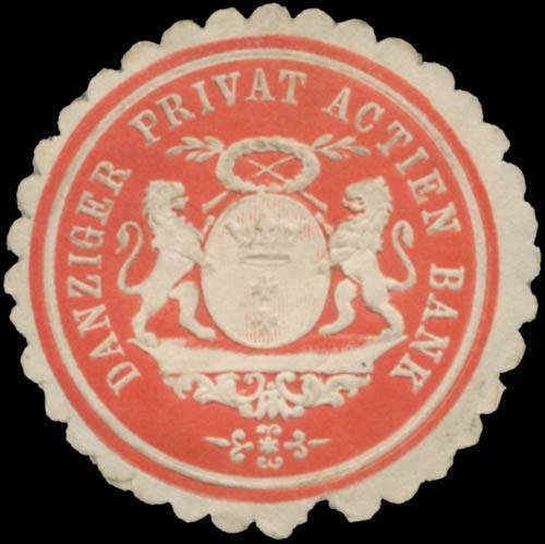 Sealing stamp of Danziger Privat-Actien-Bank